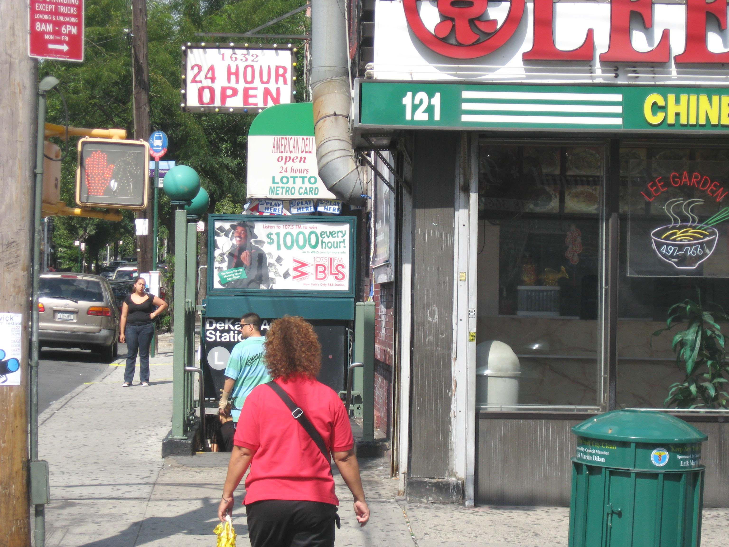 Looking northeast across Wyckoff Avenue at DeKalb Avenue (BMT Canarsie Line) street stair on a mostly sunny midday. ZIP 11237.